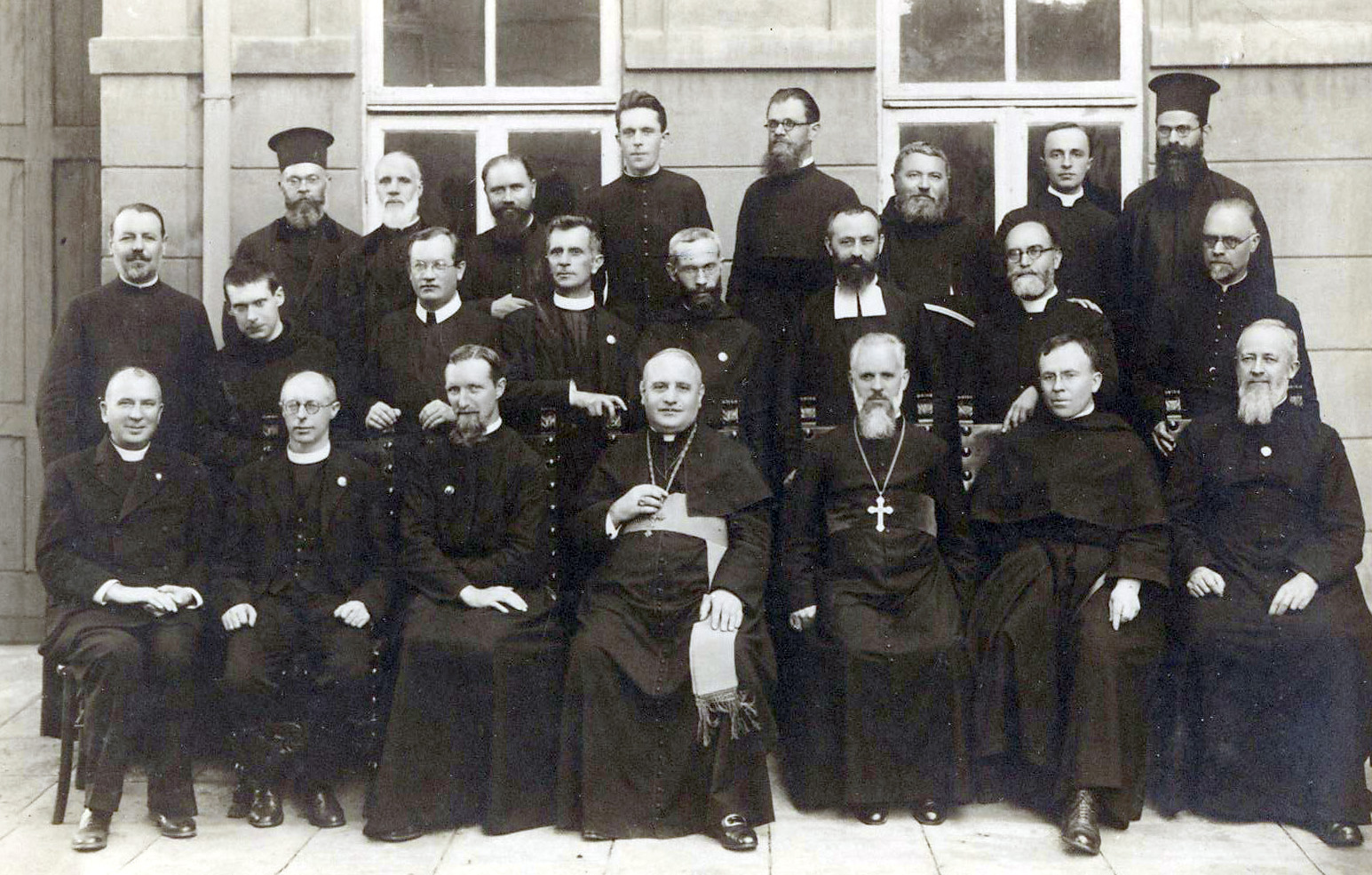 Roncalli, Theelen, and Kurtev with the priests of the Diocese of Nicopoli, Russe, around 1930